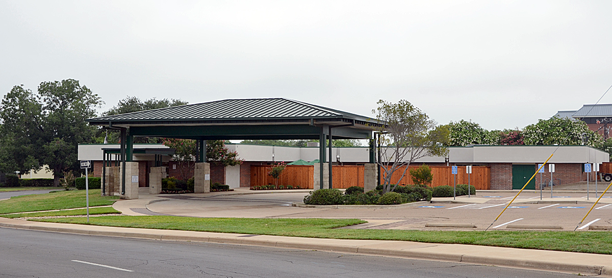 Cenikor Foundation's detoxification and short-term residential facility in Waco, TX. The 59 bed facility has allocated 12 beds to detoxification and 37 beds to short-term treatment.